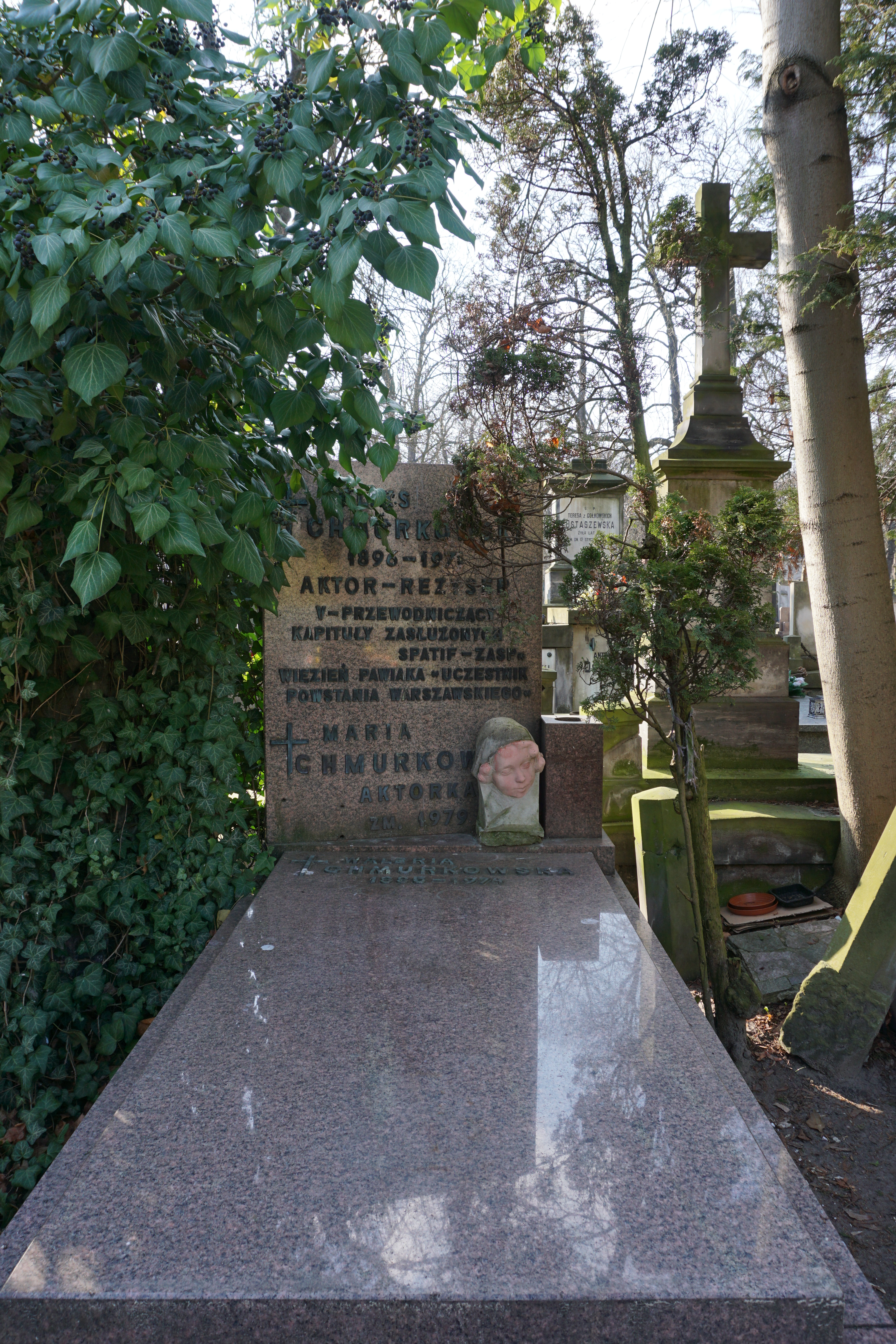 The grave of Feliks Chmurkowski at the Powązki Cemetery (section 173, row 3, grave 7)